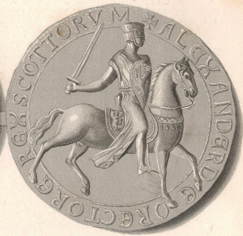 Steel engraving and enhancement of the Great Seal of Alexander II, King of Alba (Scotland).